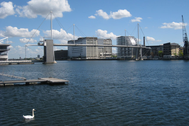 Royal Victoria Dock Footbridge The bridge is crossed by climbing stairs hidden within the boxes at each end, or cantilevered lifts.